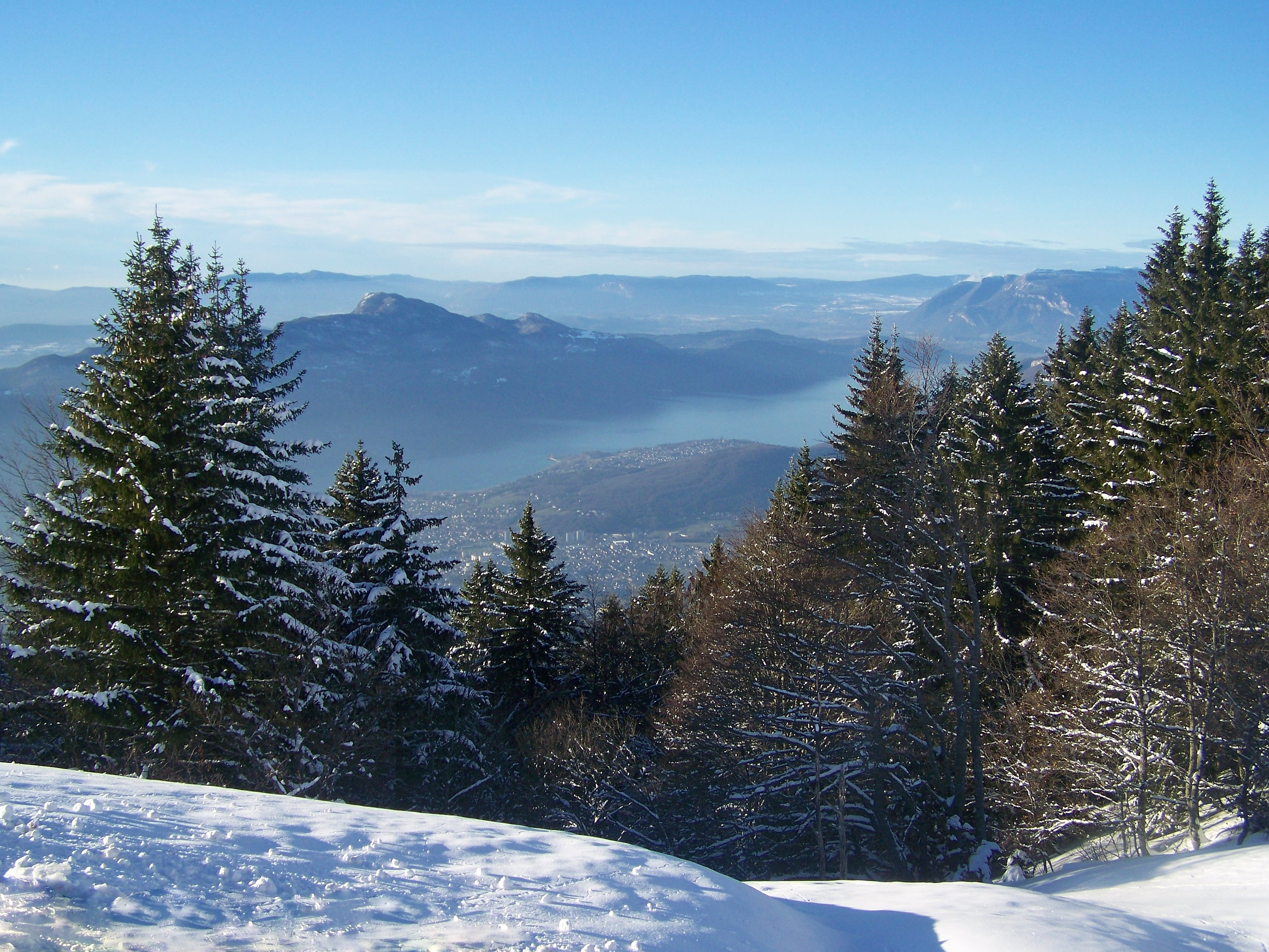 Sight, in winter, of lac du Bourget lake and part of city of Aix-les-Bains from the RD 913 road close to the top of mont Revard mount, in Savoie, France.